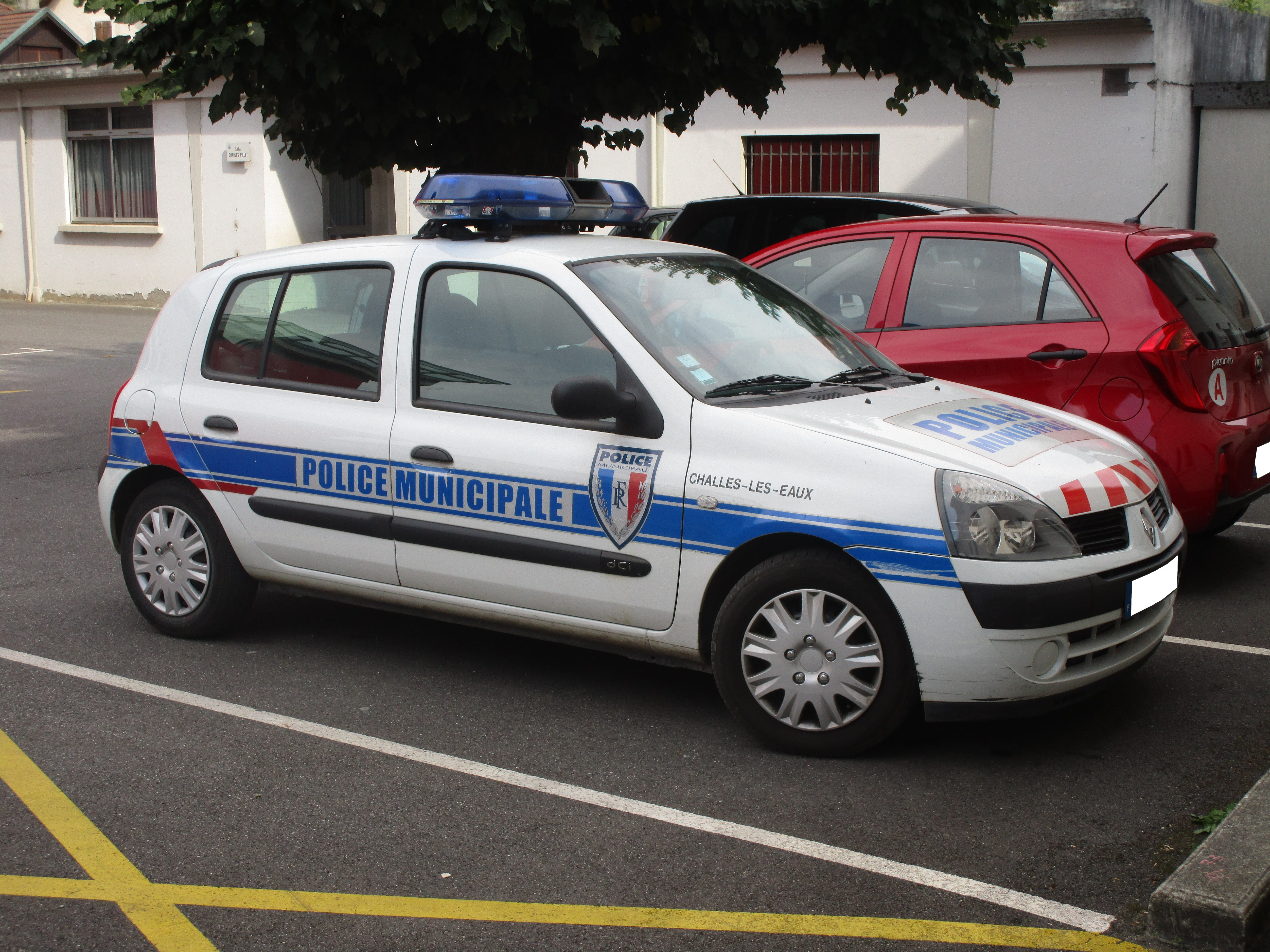 A Renault Clio Campus of the Municipal Police in Challes-les-Eaux on October 6, 2016.